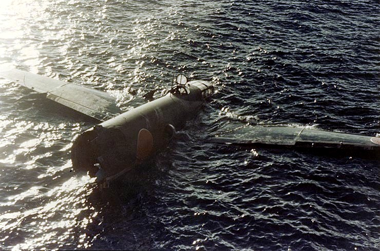 A largely intact floating wreckage of a Japanese Navy Mitsubishi G4M Type 1 land attack plane (Allied code name "Betty"), which crashed during the aerial torpedo attack on the Allied invasion force off Tulagi Island on 8 August 1942. The photo was taken from the U.S. Navy destroyer USS Ellet (DD-398).